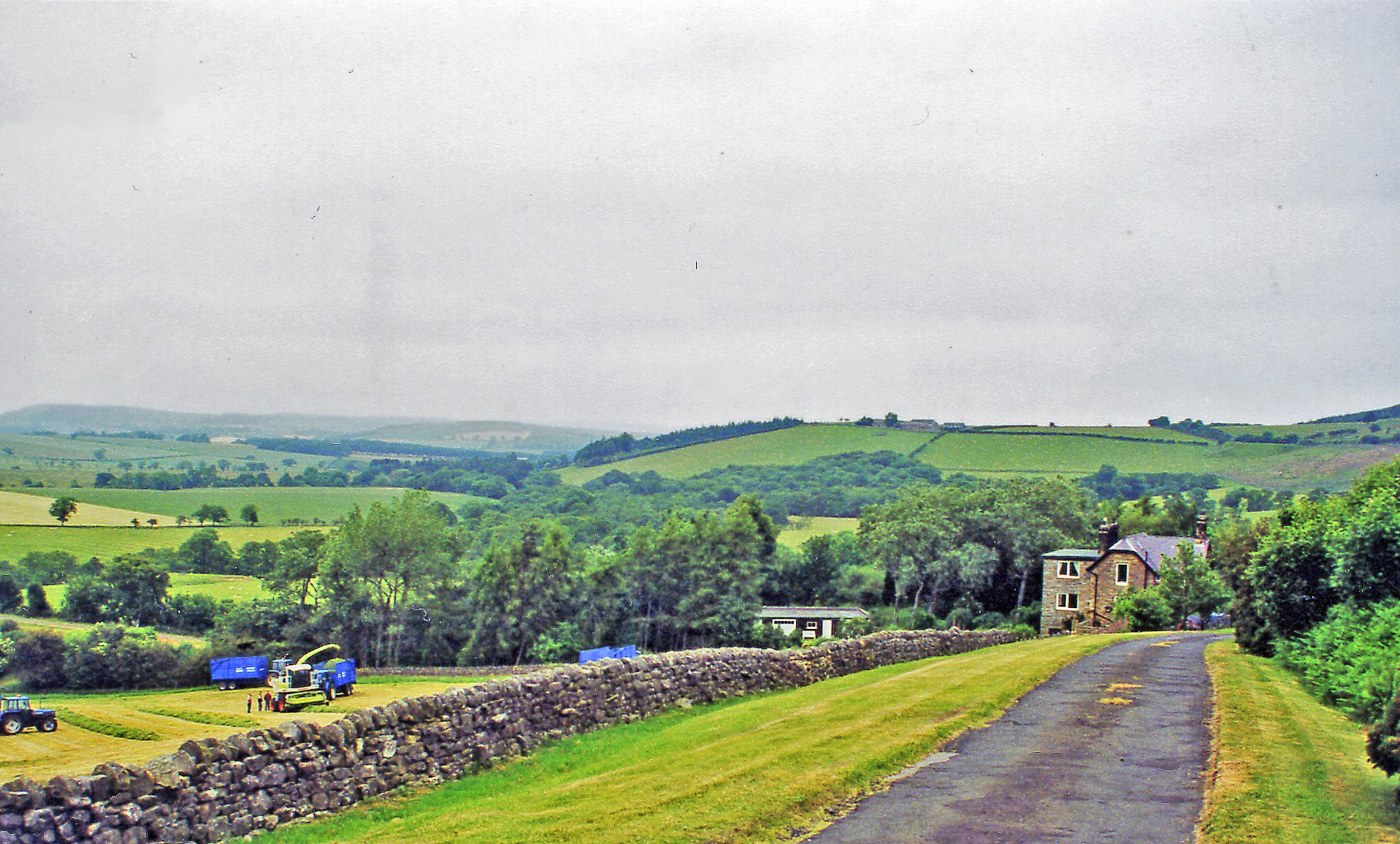 Site of Edlingham Halt and trackbed of former line from Alnwick, 2000. View NE, towards Alnwick: ex-NER Alnwick - Wooler - Coldstream line, which was closed to passengers from 22/9/30 but remained open for goods Alnwick - Ilderton until 2/3/53. On the left horizon is the Cheviot (2,676 ft.).